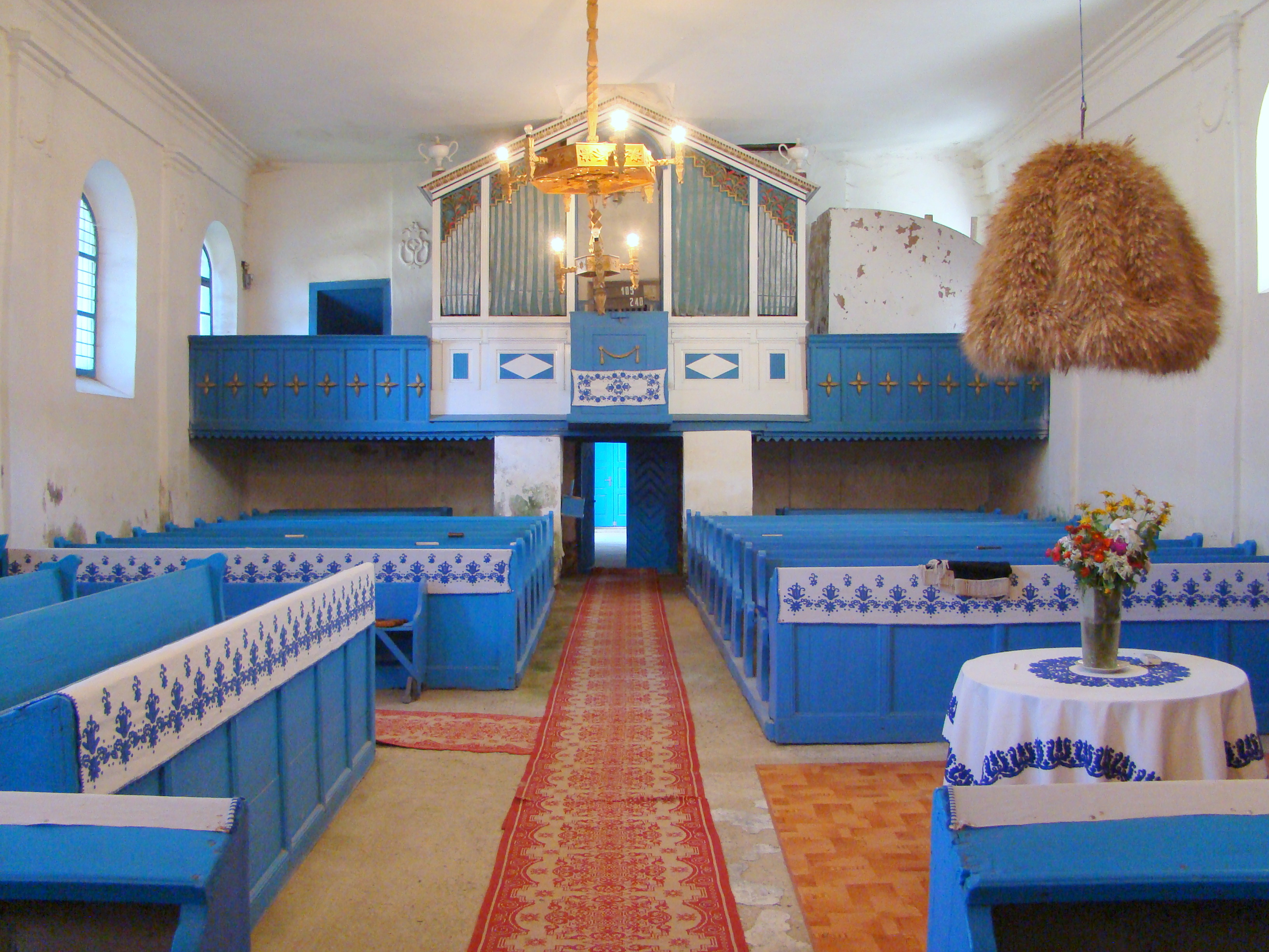 Unitarian church in Roua, Mureş county, Romania